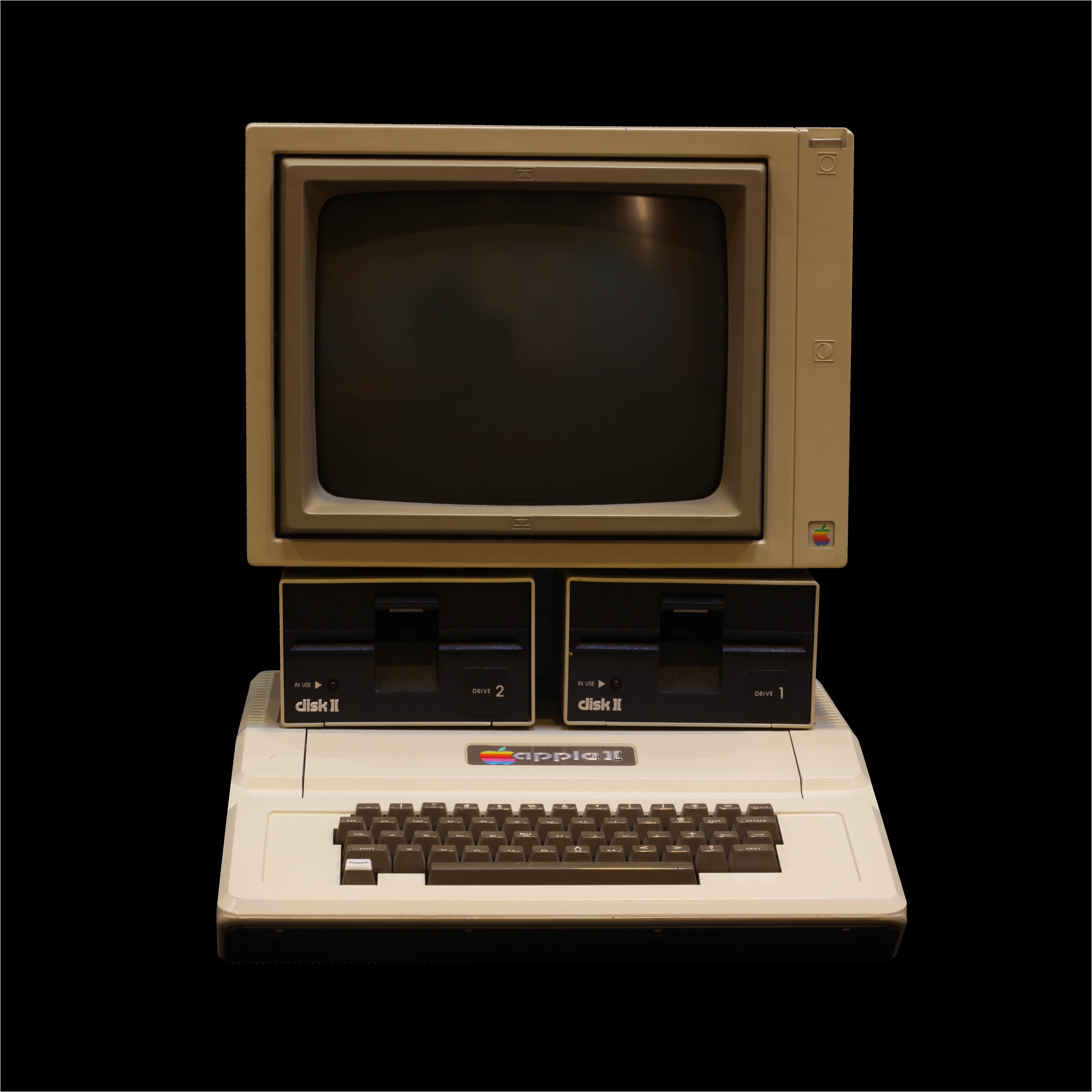 Apple II computer. On display at the Musée Bolo, EPFL, Lausanne.